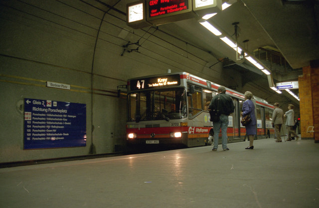 Rubber tyres in the tram subway